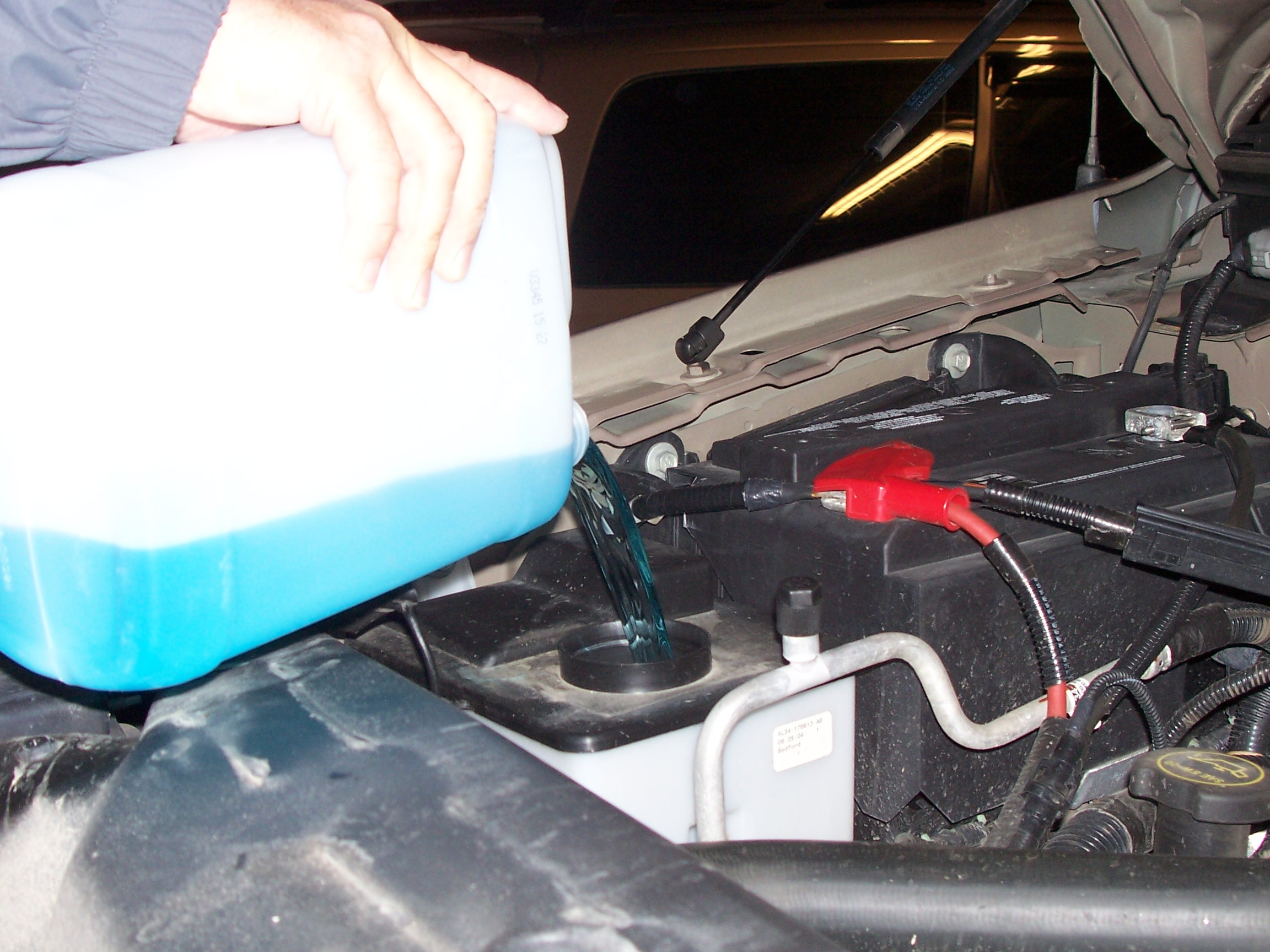 A man pouring windshield washer fluid into his car in Canada.